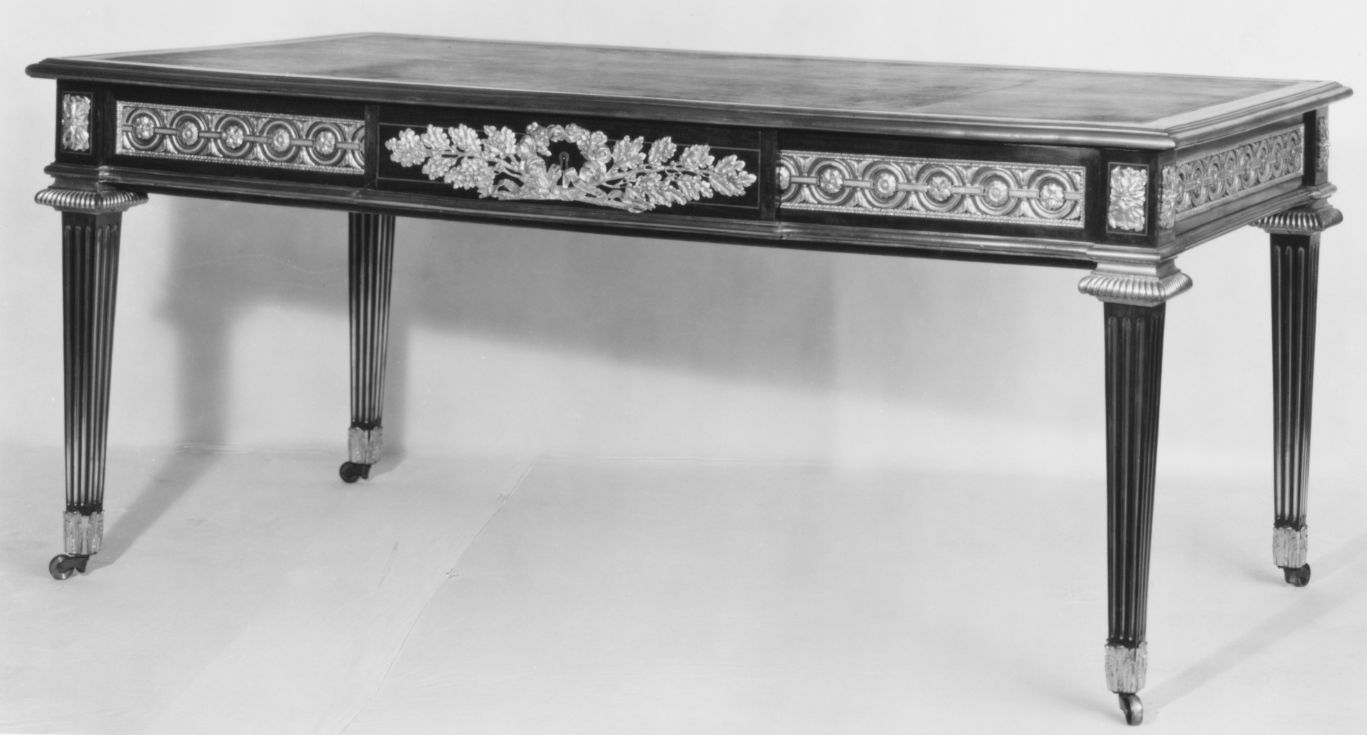 French; Writing table; Woodwork-Furniture